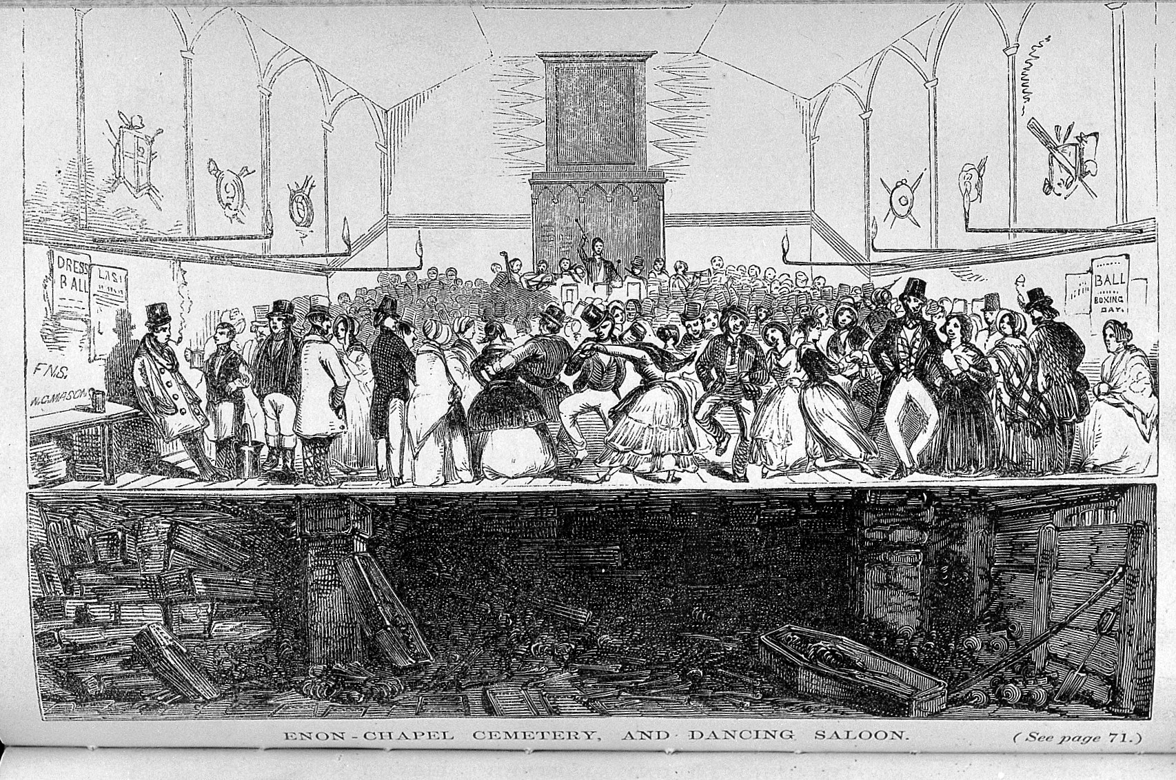 Enon Chapel Rare Books Keywords: graveyards